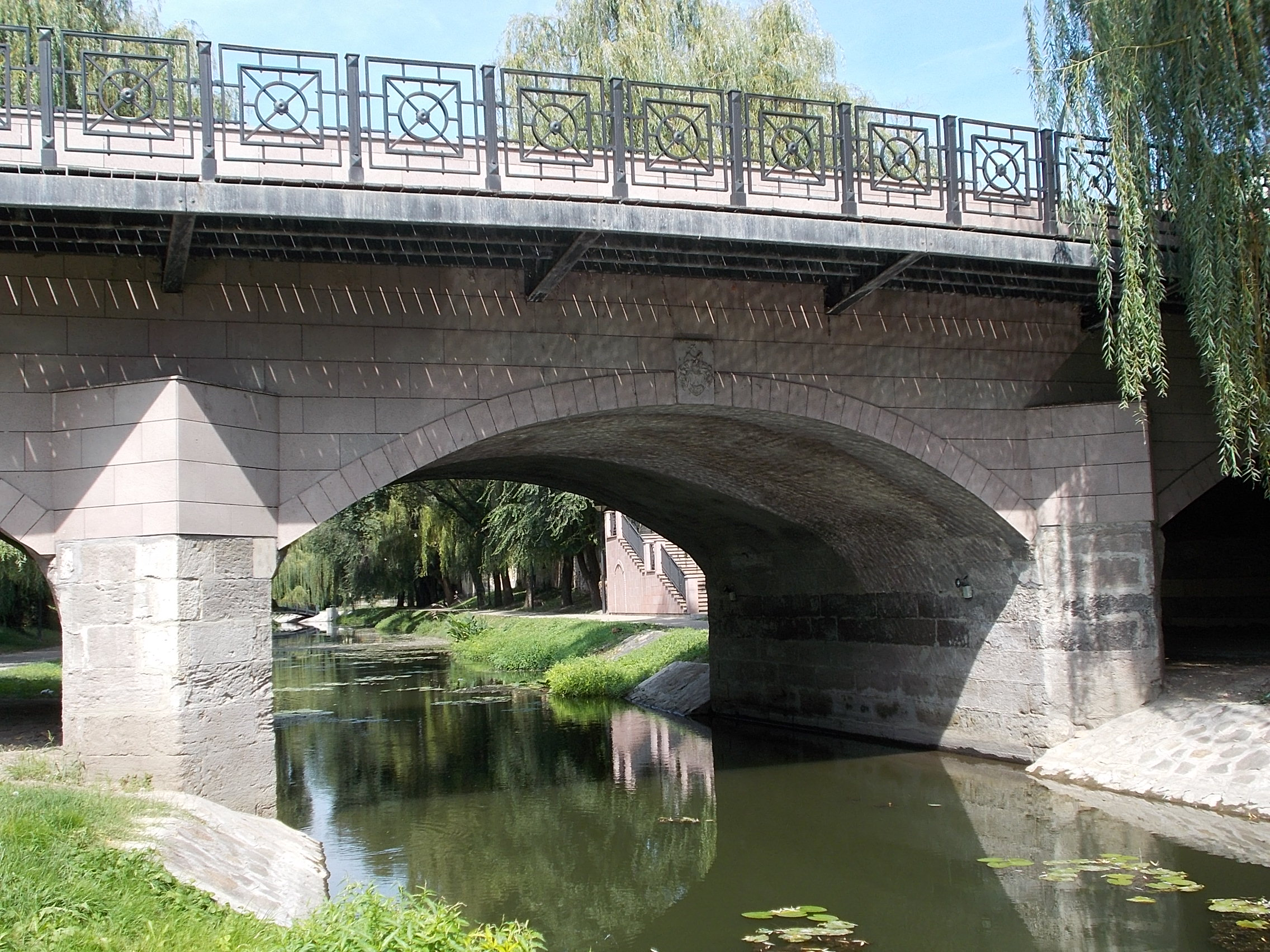 Stone Bridge over Zagyva. - Rákóczi street, Jászberény, Jász-Nagykun-Szolnok County, Hungary